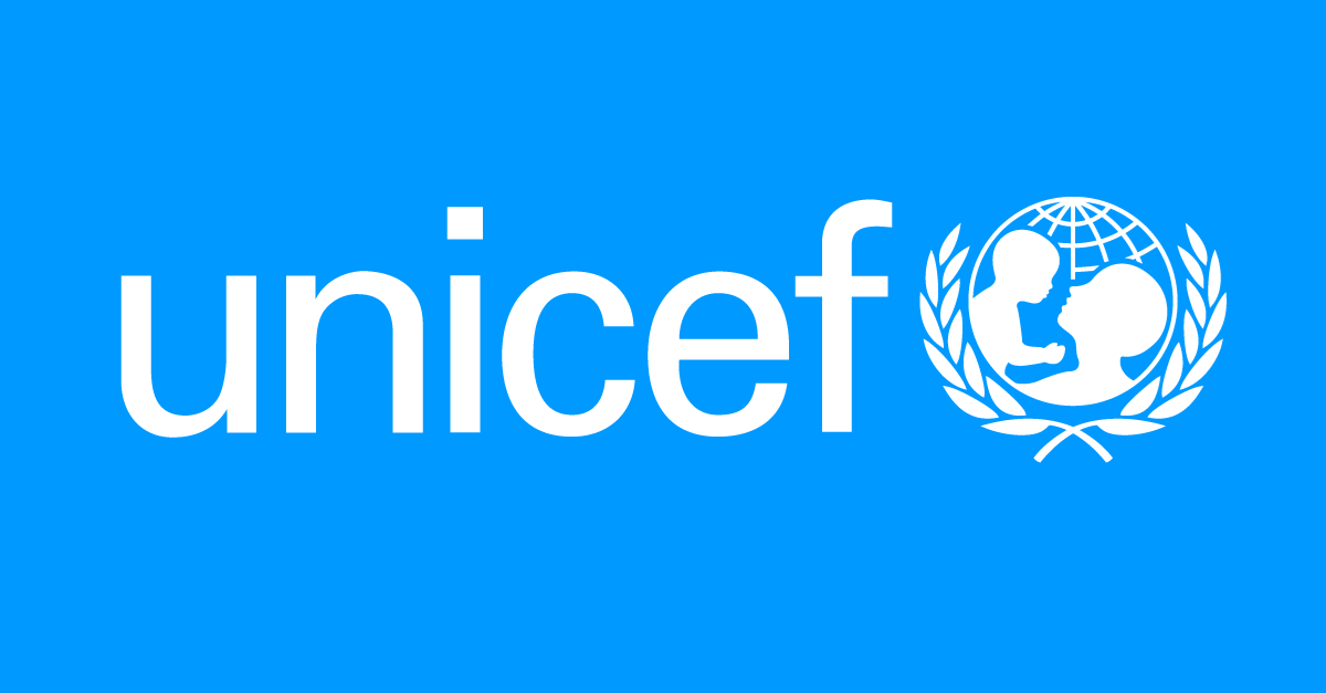 Flag of the United Nations Children's Fund (UNICEF), an organization of the United Nations